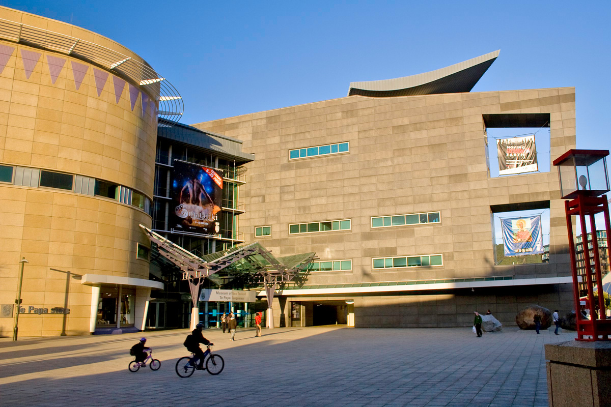 Te Papa, Museum. Wellington, New Zealand